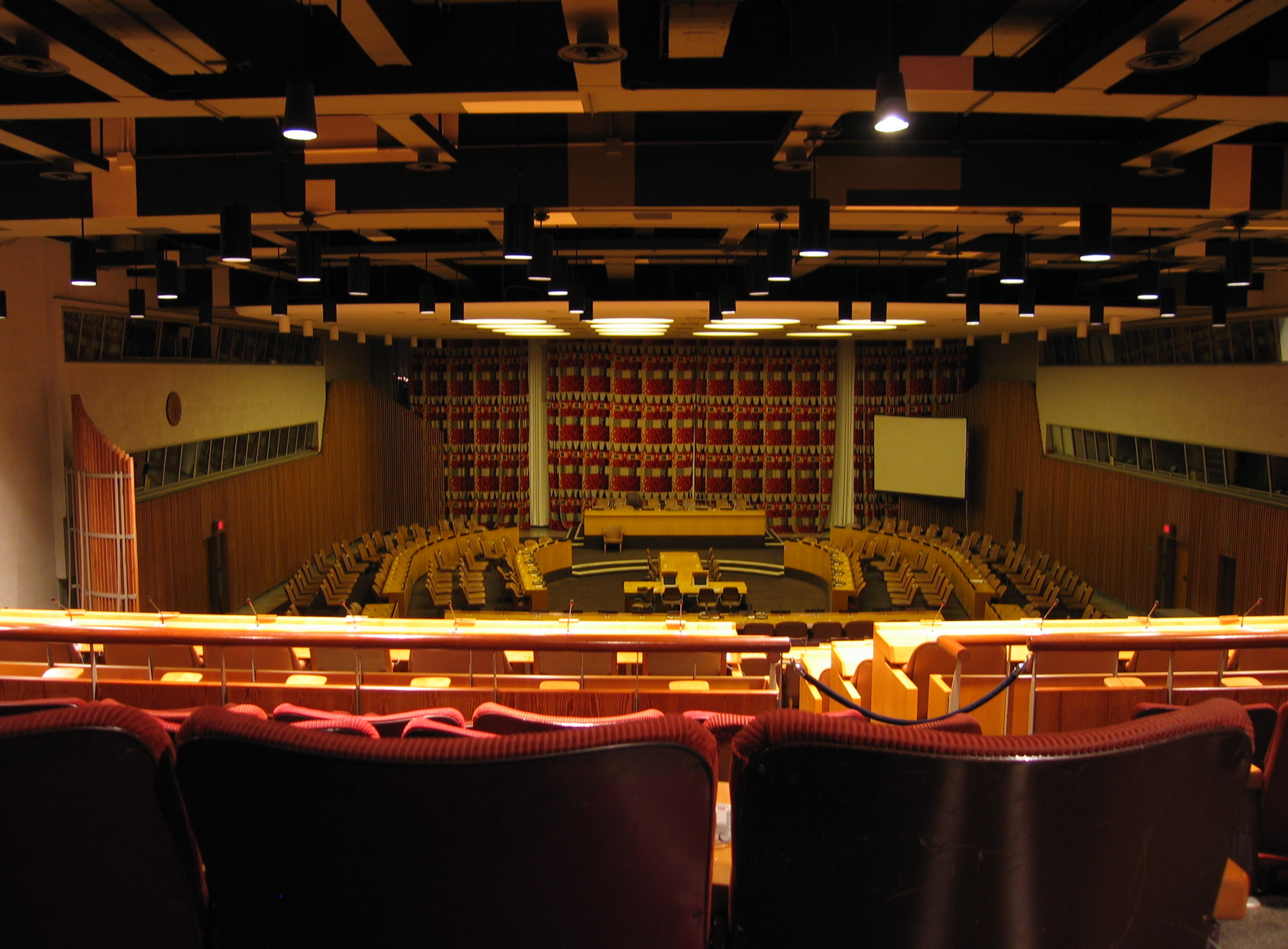 United Nations Economic and Social Development Council chamber